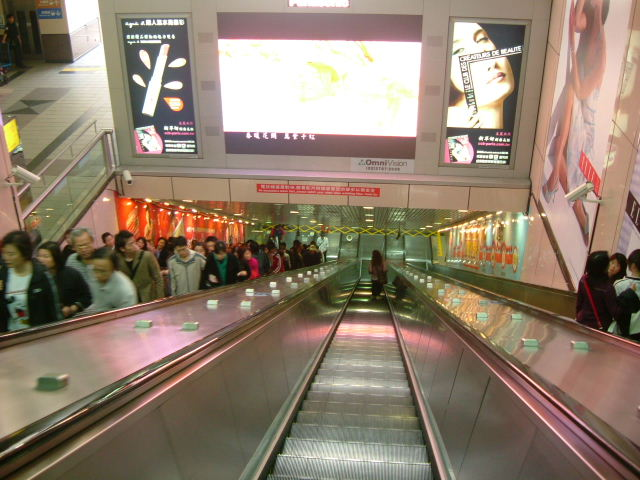 Escalators in Zhongxiao Fuxing Station, Taipei MRT